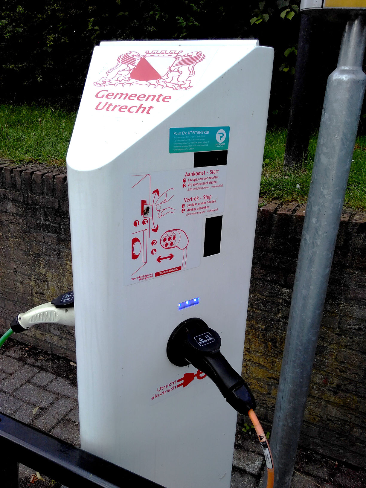 Charging point for electric car, Netherlands, Utrecht